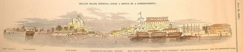 1848 woodcut showing prison hulks moored off Ireland Island, Bermuda. Believed to have been commissioned by and for the Royal Navy and crafted aboard a Royal Navy pinnace based in Bermuda.